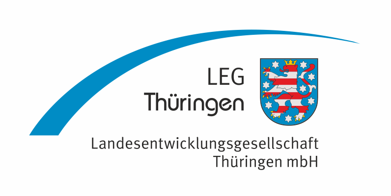 German logo of the Landesentwicklungsgesellschaft LEG Thuringia (State Development Corporation of Thuringia) with caption